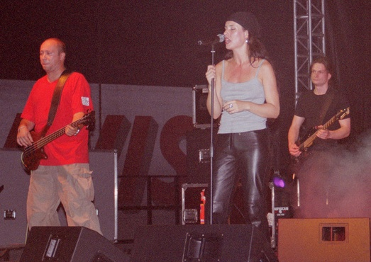 The german band Bell, Book and Candle in concert